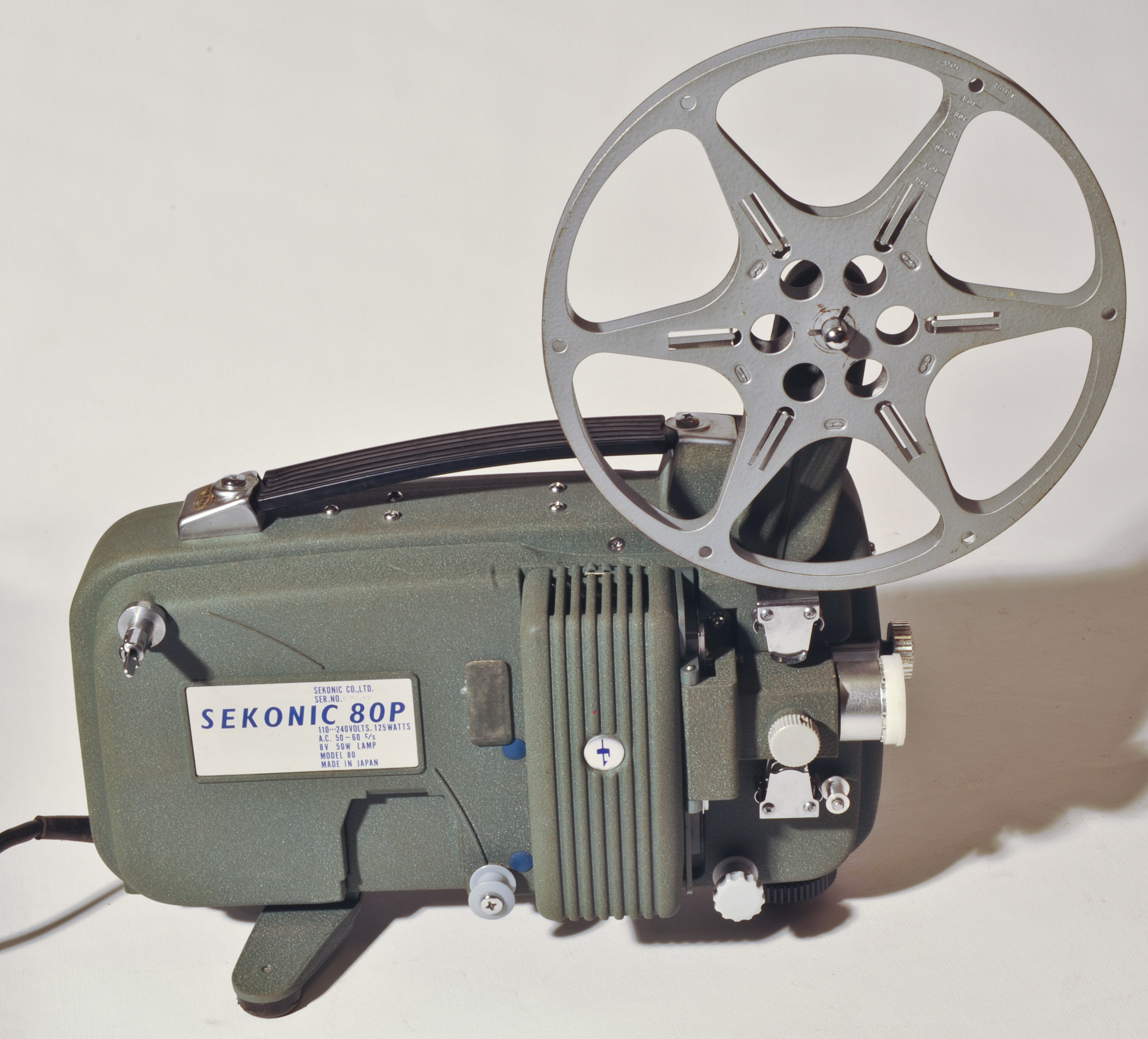 Film projector 8 mm of Sekonic 80P (1950th?)